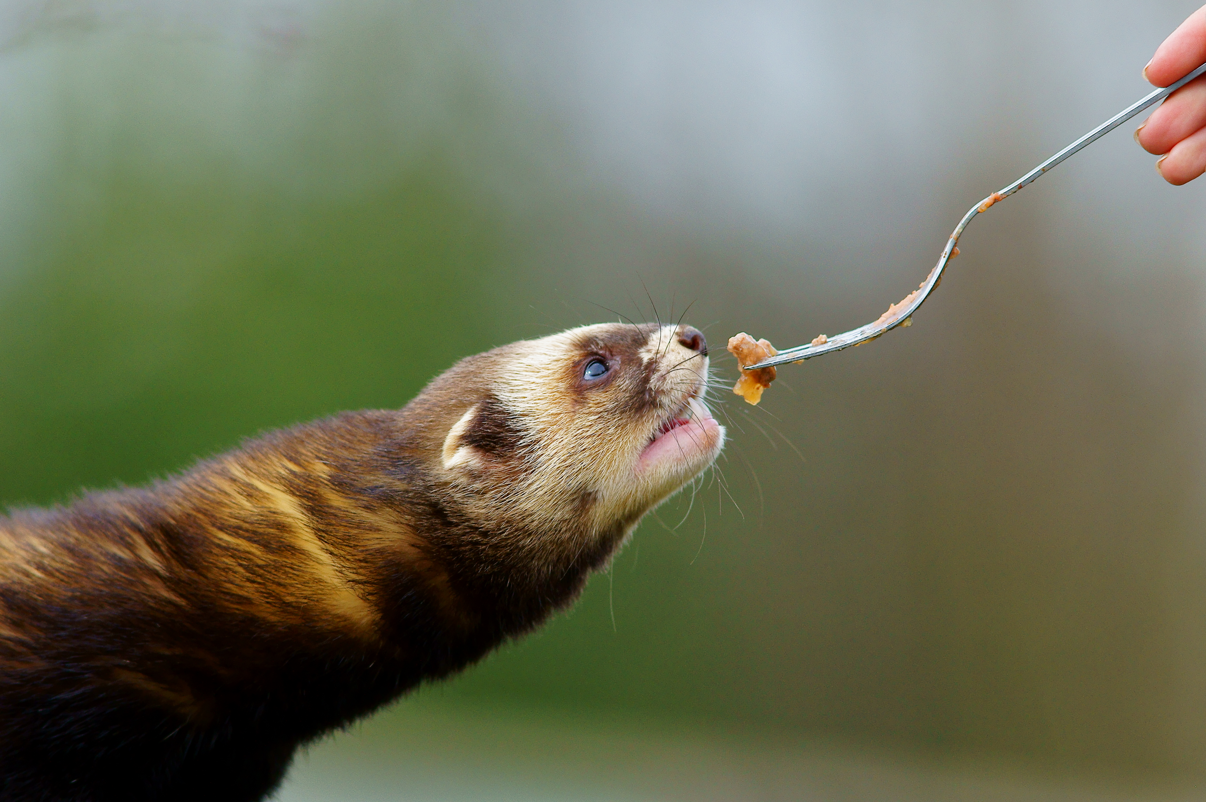 Polecat Feeding at the British Wildlife Centre, Newchapel, Surrey